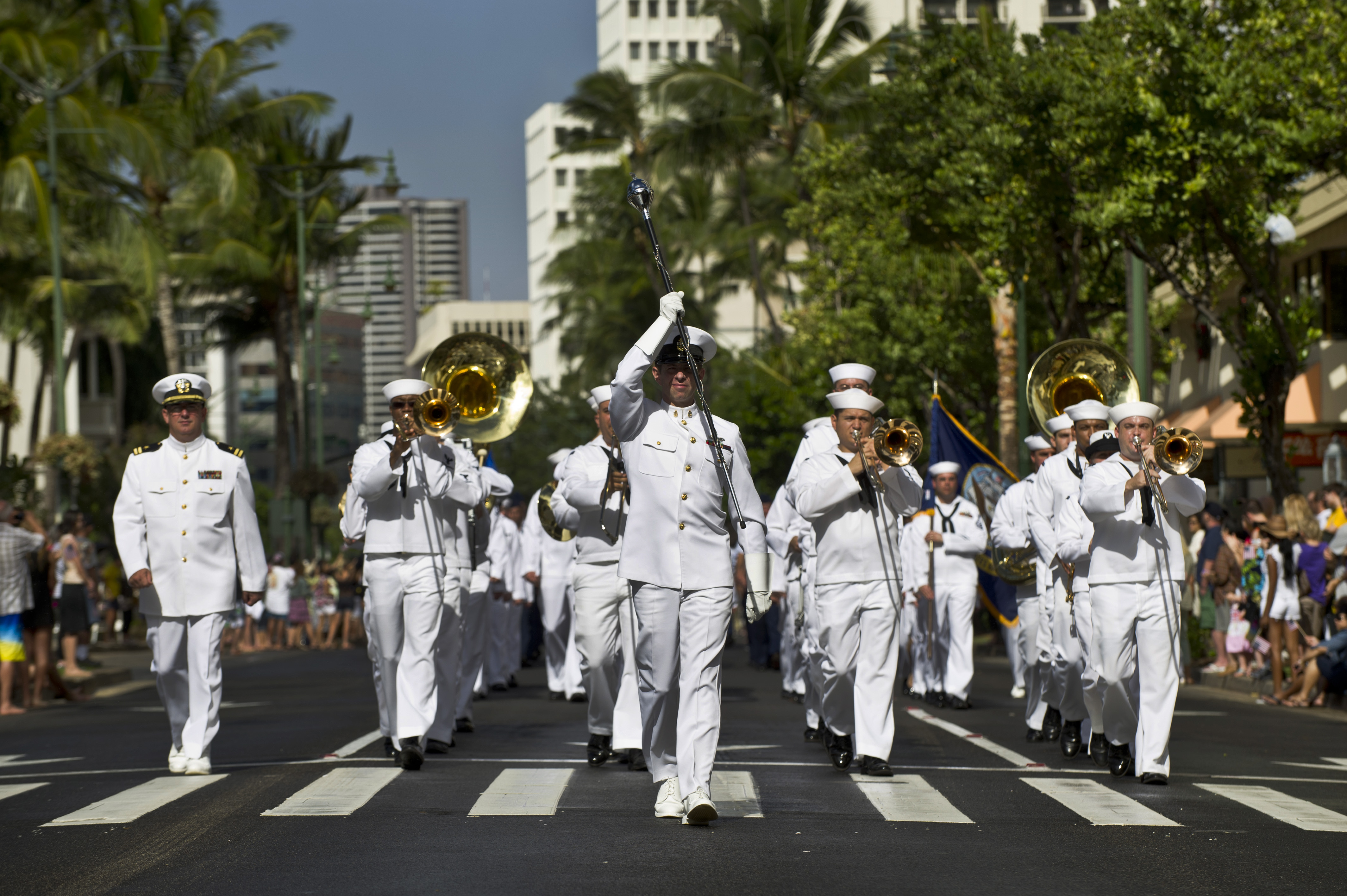 U.S. Navy Pacific Fleet Band performs while marching in the Congressional Gold Medal parade Dec. 17, in Waikiki, Hawaii. World War II, Nisei veterans of the 100th Infantry Battalion, 442nd regimental combat team, and Military Intelligence Service were honored for their service with a parade as recipients of the Congressional Gold Medal, the highest civilian award bestowed by U.S. Congress. Their courage on the battlefield earned them the distinction of being the most highly decorated unit of its size in American military history.